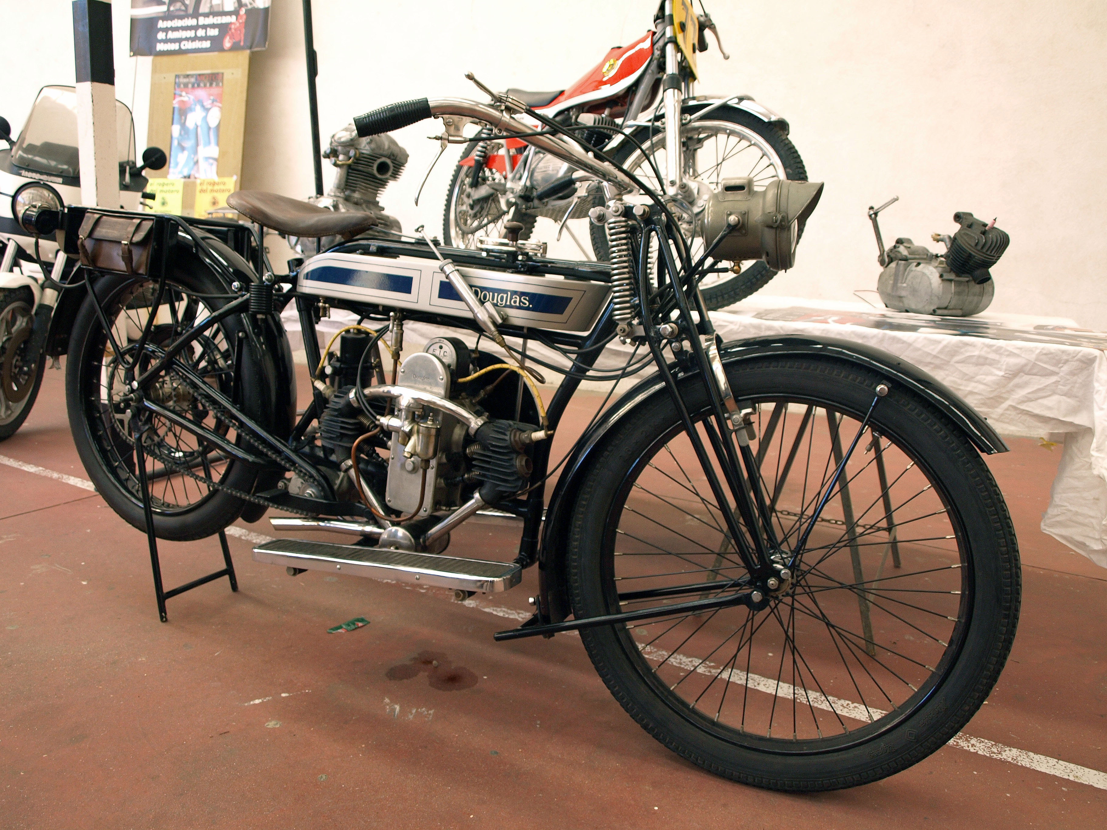 A Douglas motorbike, probably a Douglas 4 pk (600 cc) of 1918, in exposition at Feria del Motor, La Bañeza (Spain, 2008)